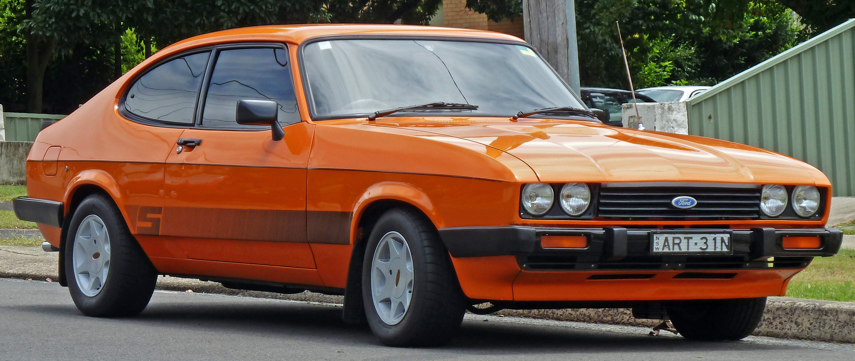 1983 Ford Capri S coupe. Photographed in Sans Souci, New South Wales, Australia.